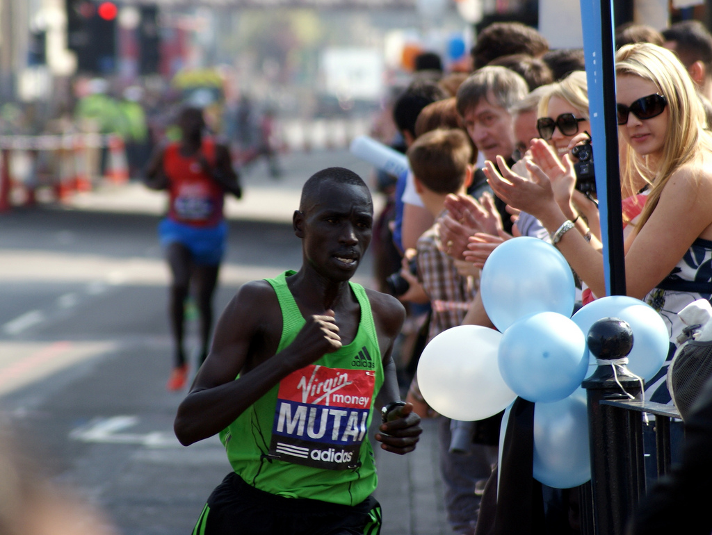 2011 London Marathon - Emmanuel Mutai on the way to record time win at 5 miles to go